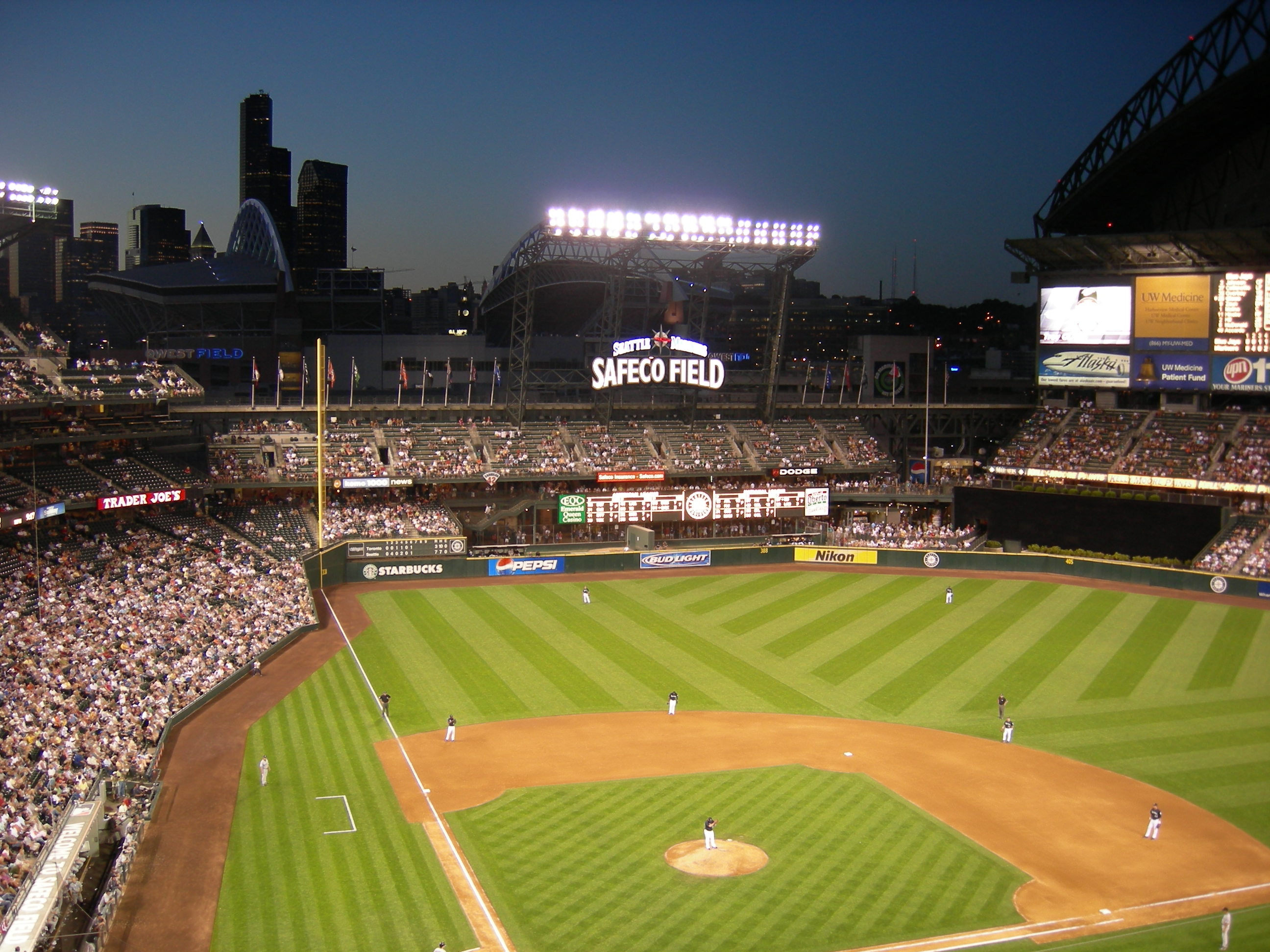 Looking toward Qwest (football) Field and Downtown Seattle from the Safeco Field stands